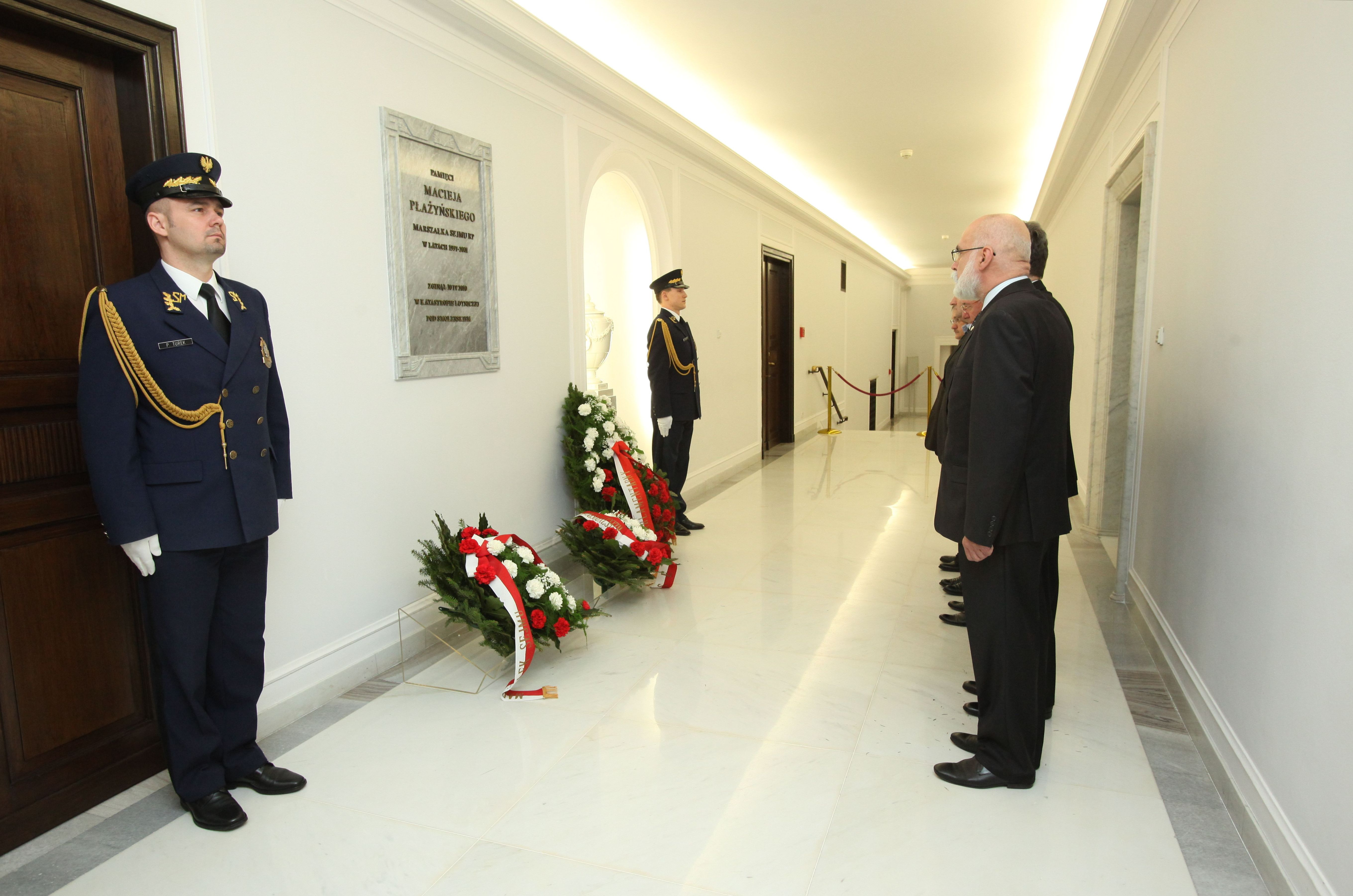 Honouring Maciej Płażyński who died in 2010 Polish Air Force Tu-154 crash near Smolensk in the Polish Sejm